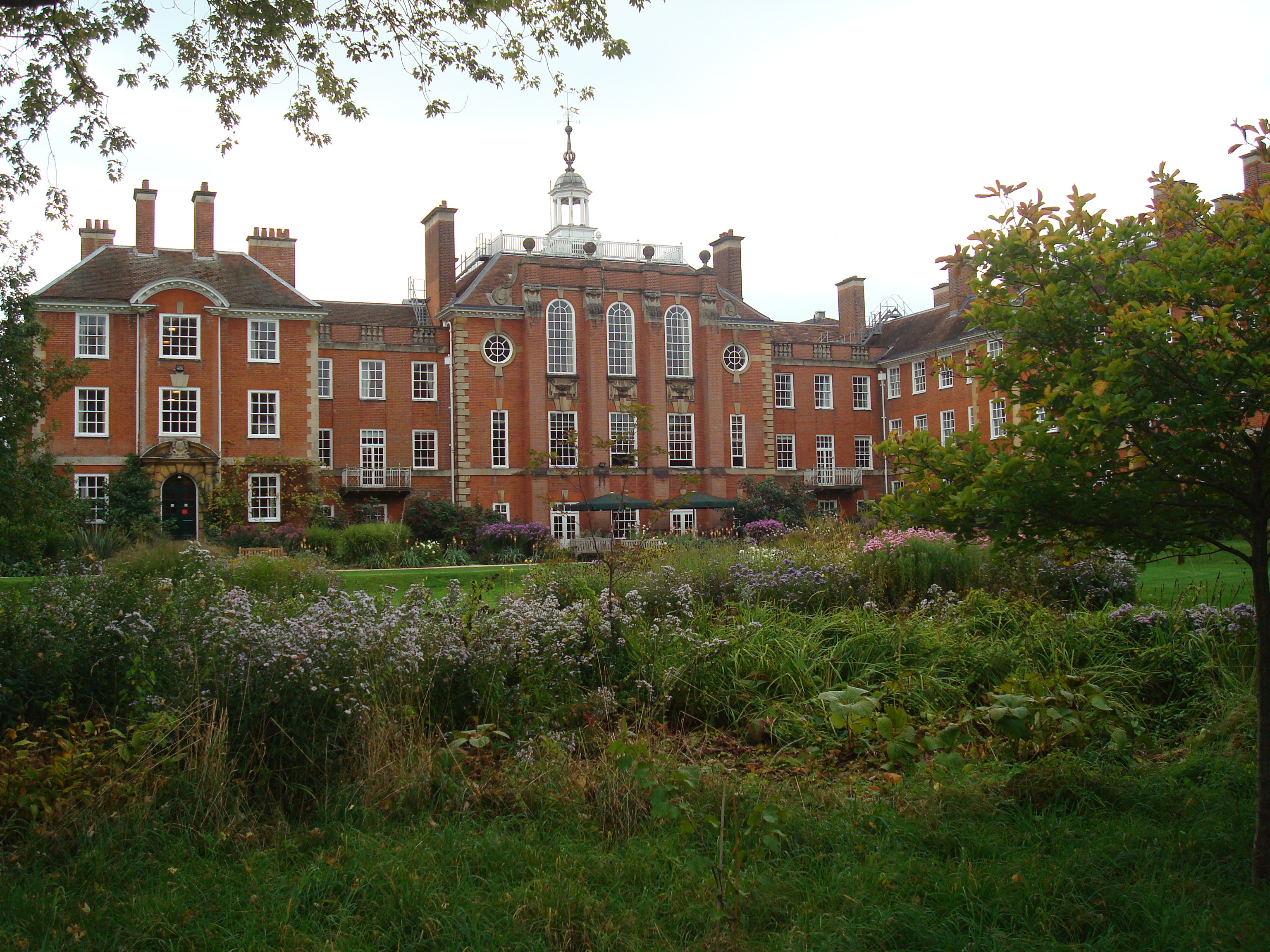 The Talbot Hall at LMH as seen from the Sunken Garden